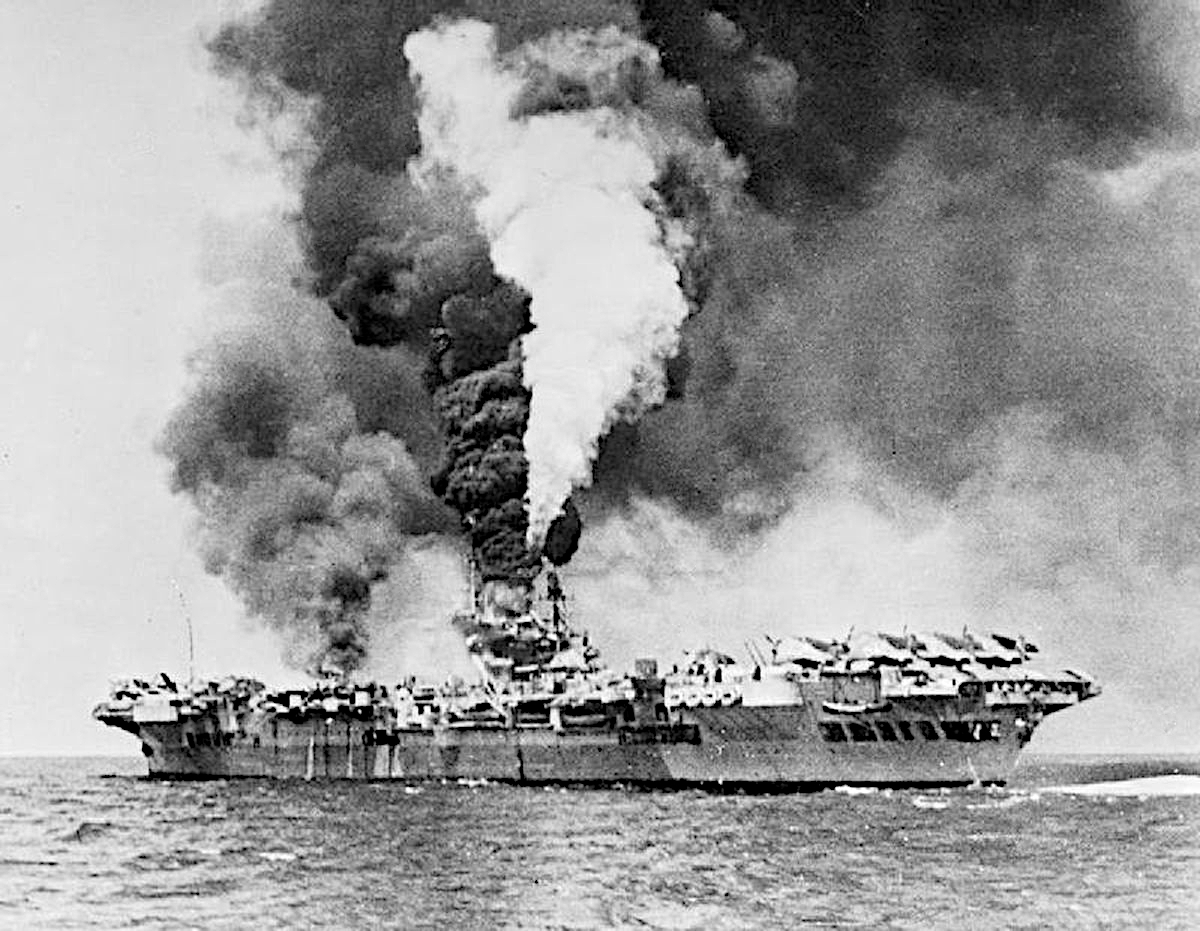 The aircraft carrier HMS Formidable (R67) on fire after being struck by a Kamikaze off Sakishima Gunto. Formidable was hit at 1130 hrs, the kamikaze making a massive dent about 3 m long, 0.6 m wide and deep in the armoured flight deck. A large steel splinter speared down through the hangar deck and the centre boiler-room, where it ruptured a steam line, and came to rest in a fuel tank, starting a major fire in the aircraft park. Eight crew members were killed and forty-seven were wounded. One Vought Corsair and ten Grumman Avengers were destroyed.